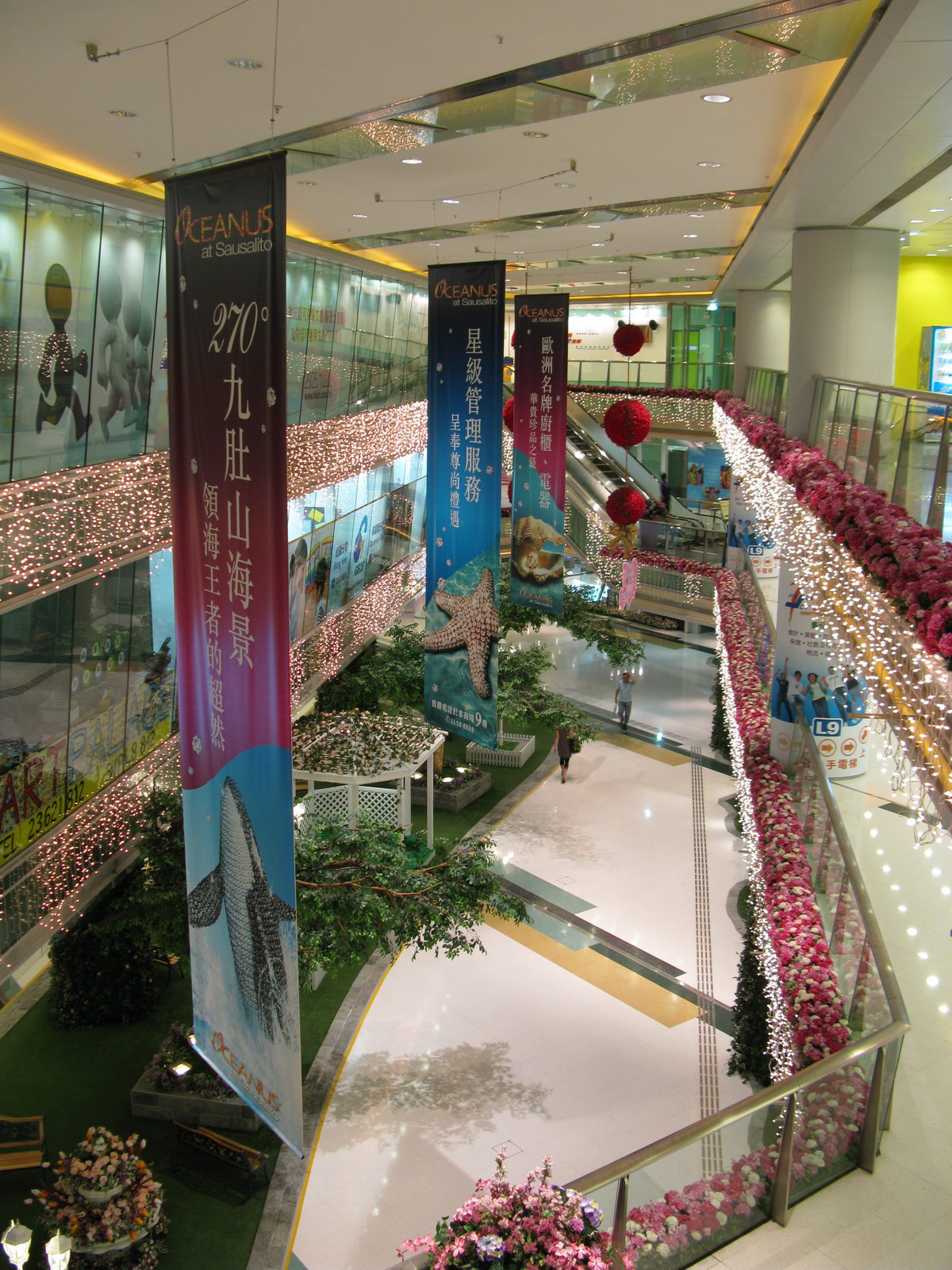 國際都會-都會商場-24小時公眾行人通道(公共空間) The Metropolis Mall, The Metropolis, Hung Hom